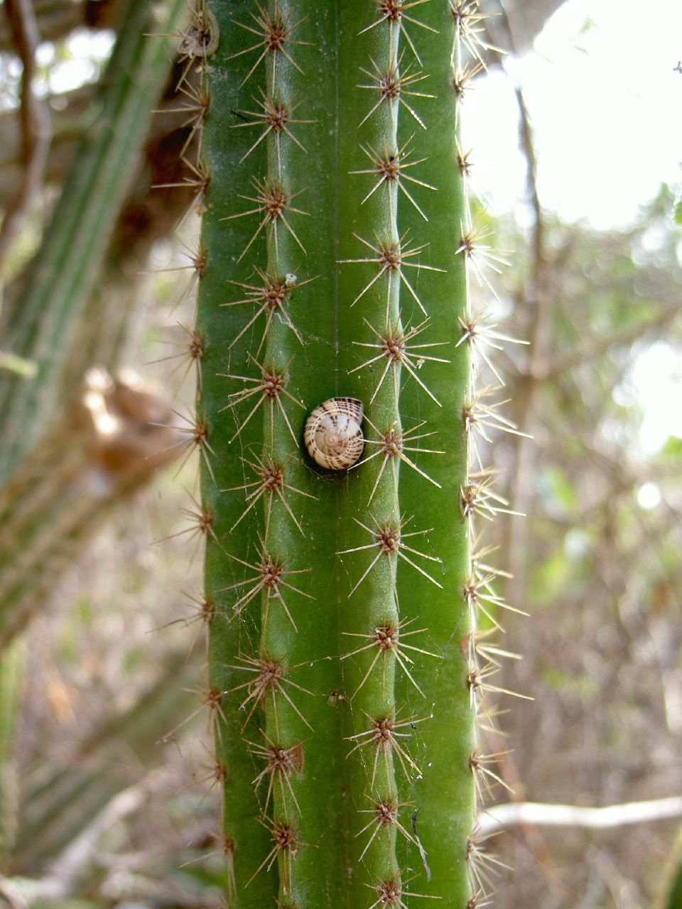 an unidentified gastropod from Cuba